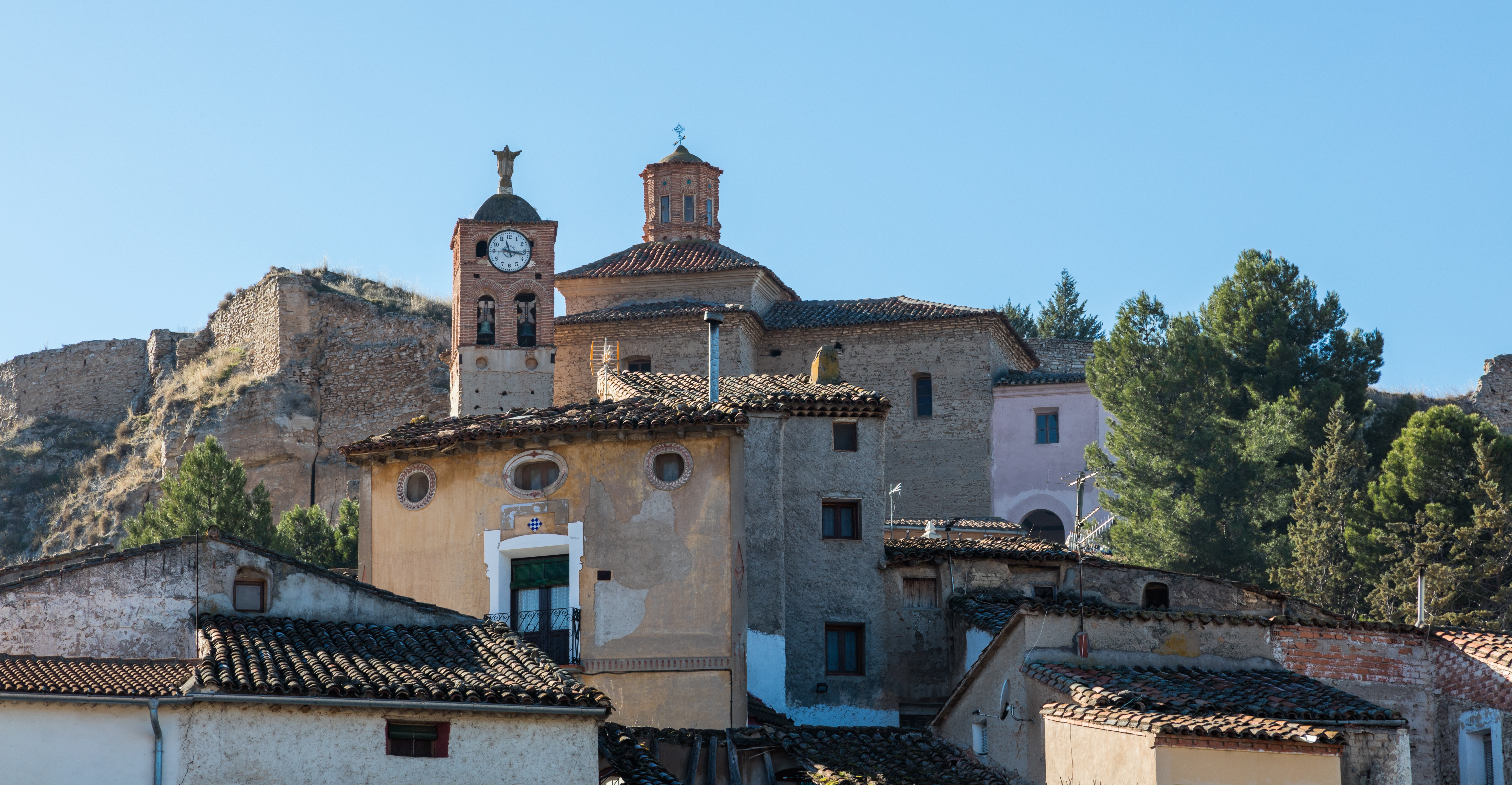 Belmonte de Gracián, Zaragoza, Spain